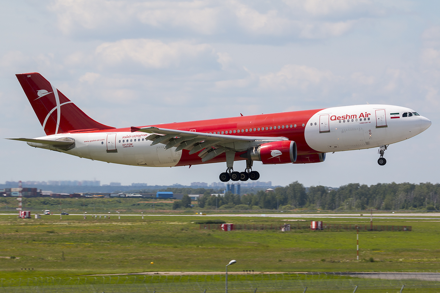 UUWW / 23.06.2016 / Airbus A-300-600 / EP-FQM / Qeshm Airlines